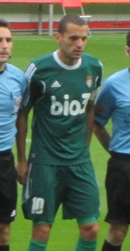 Yuri de Souza, for SD Ponferradina